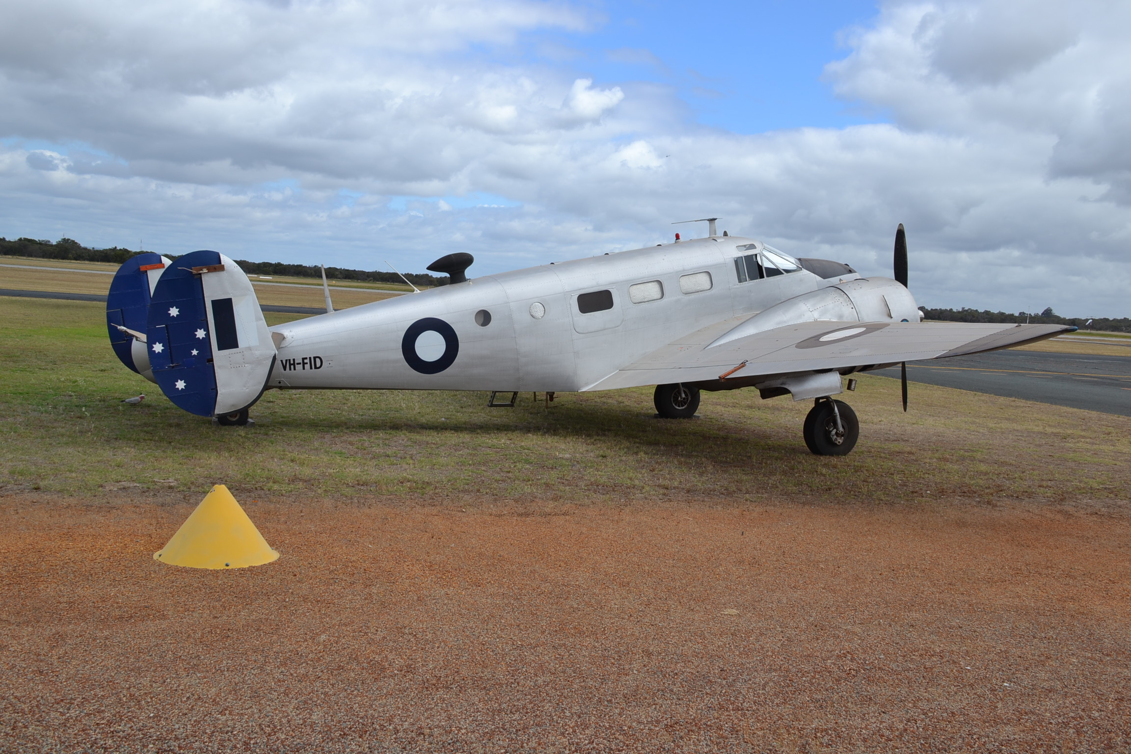 Beech D.18S at Jandakot-JAD, Perth, WA., Australia, 28/11/14.